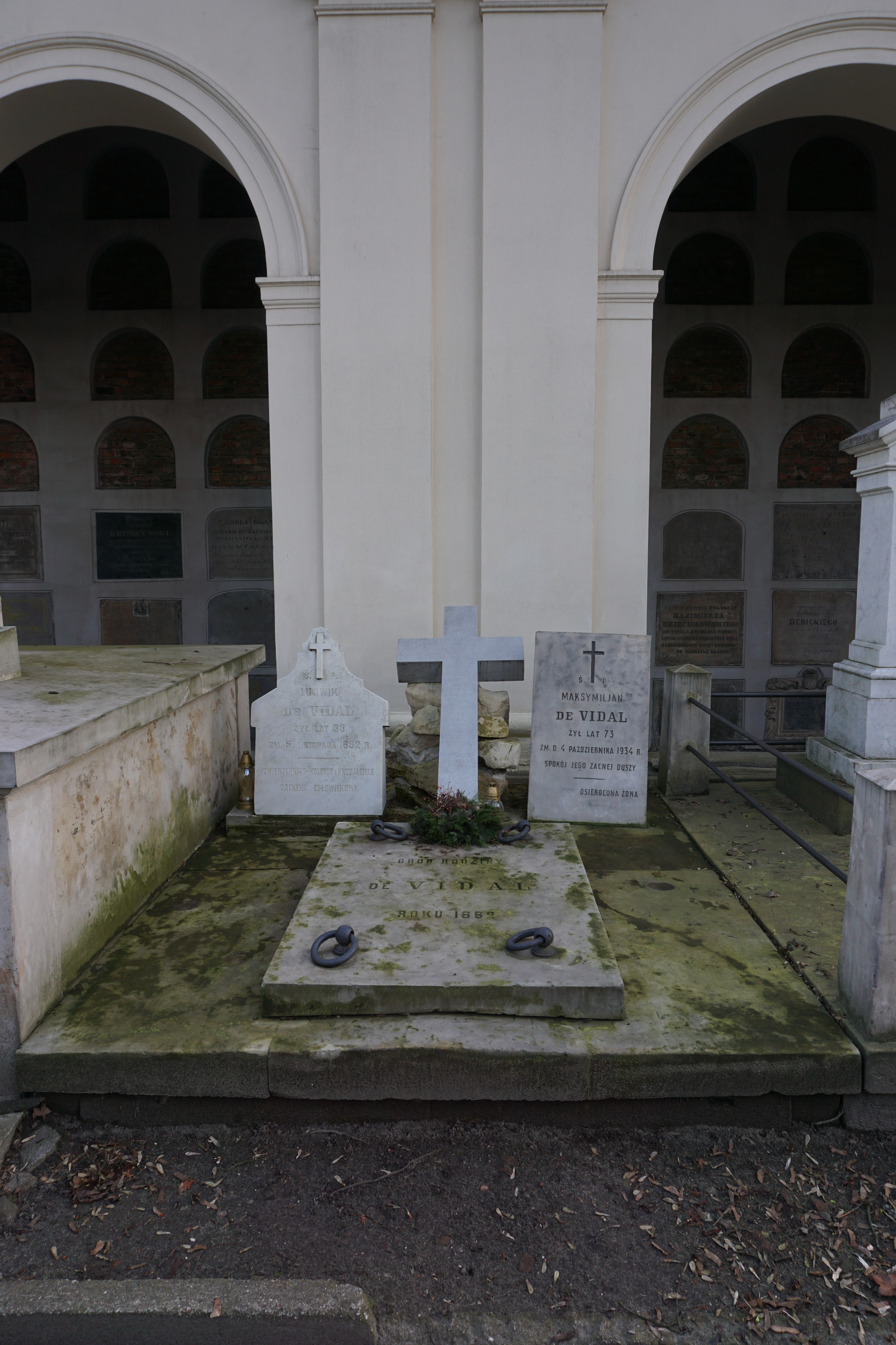 The grave of Maksymilian de Vidal at the Powązki Cemetery (section Under the catacombs, grave 161, 162)